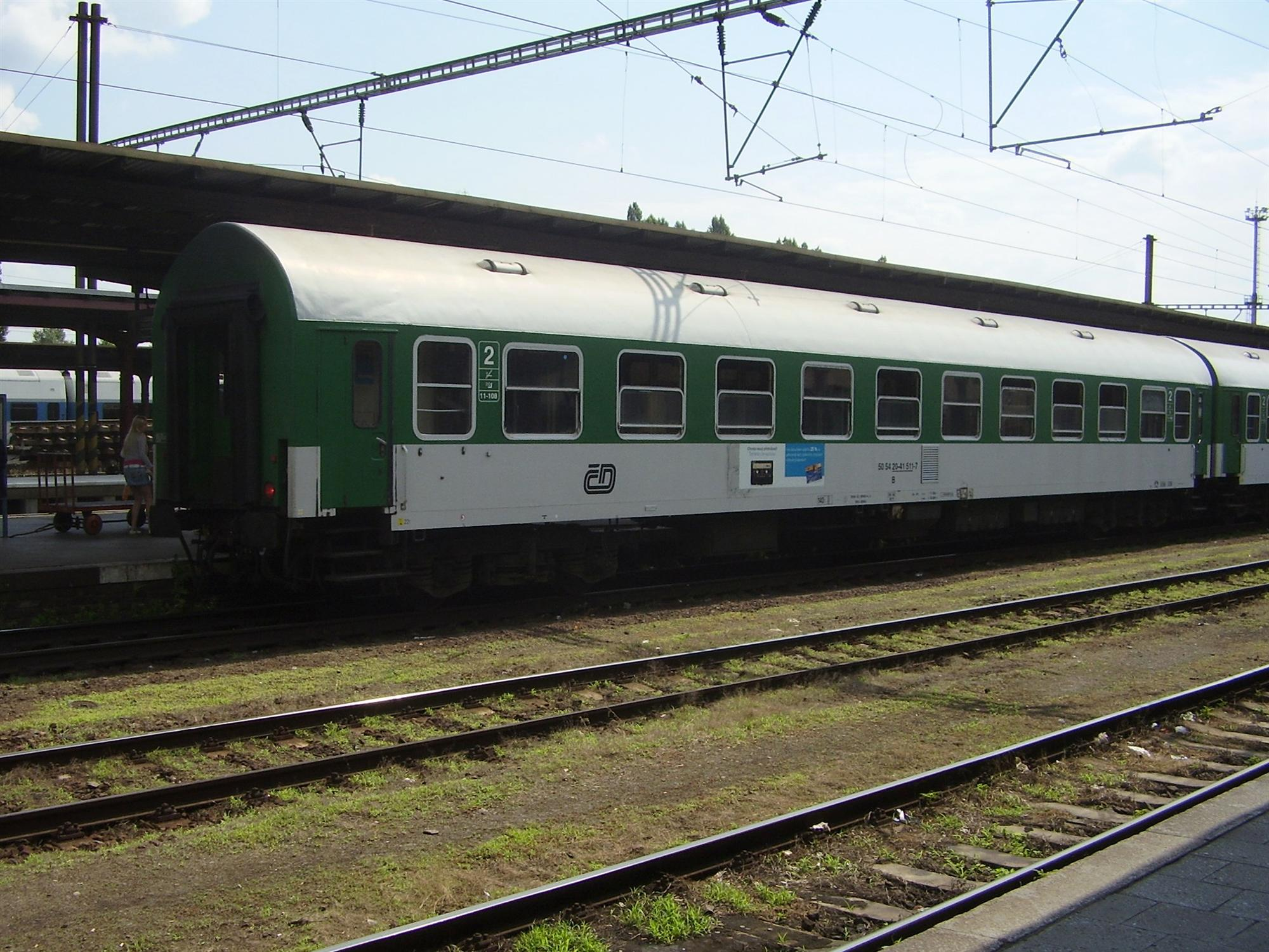 České dráhy rail car type B ni Kolín